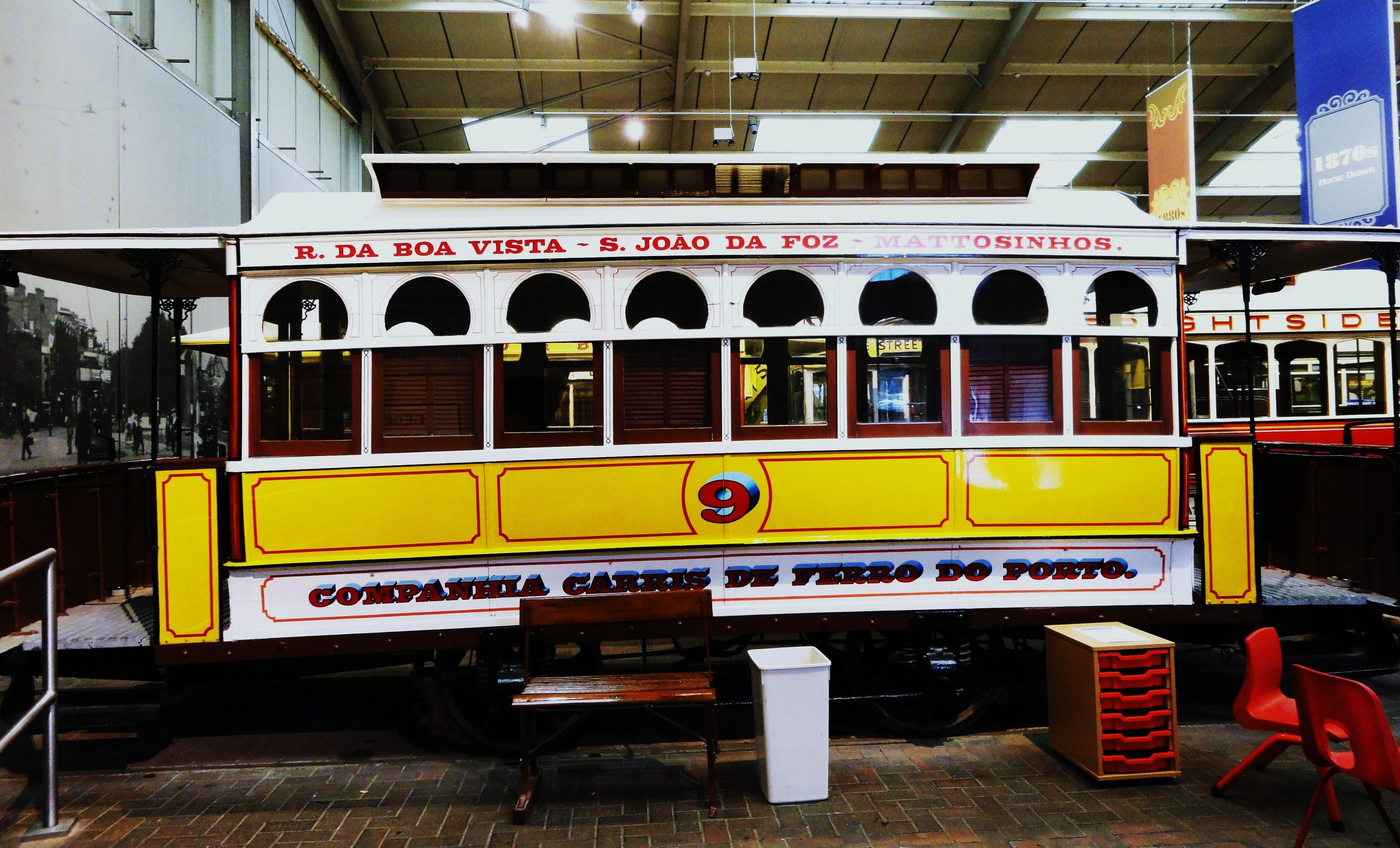 Crich Tramway Museum ... Portuguese tram.